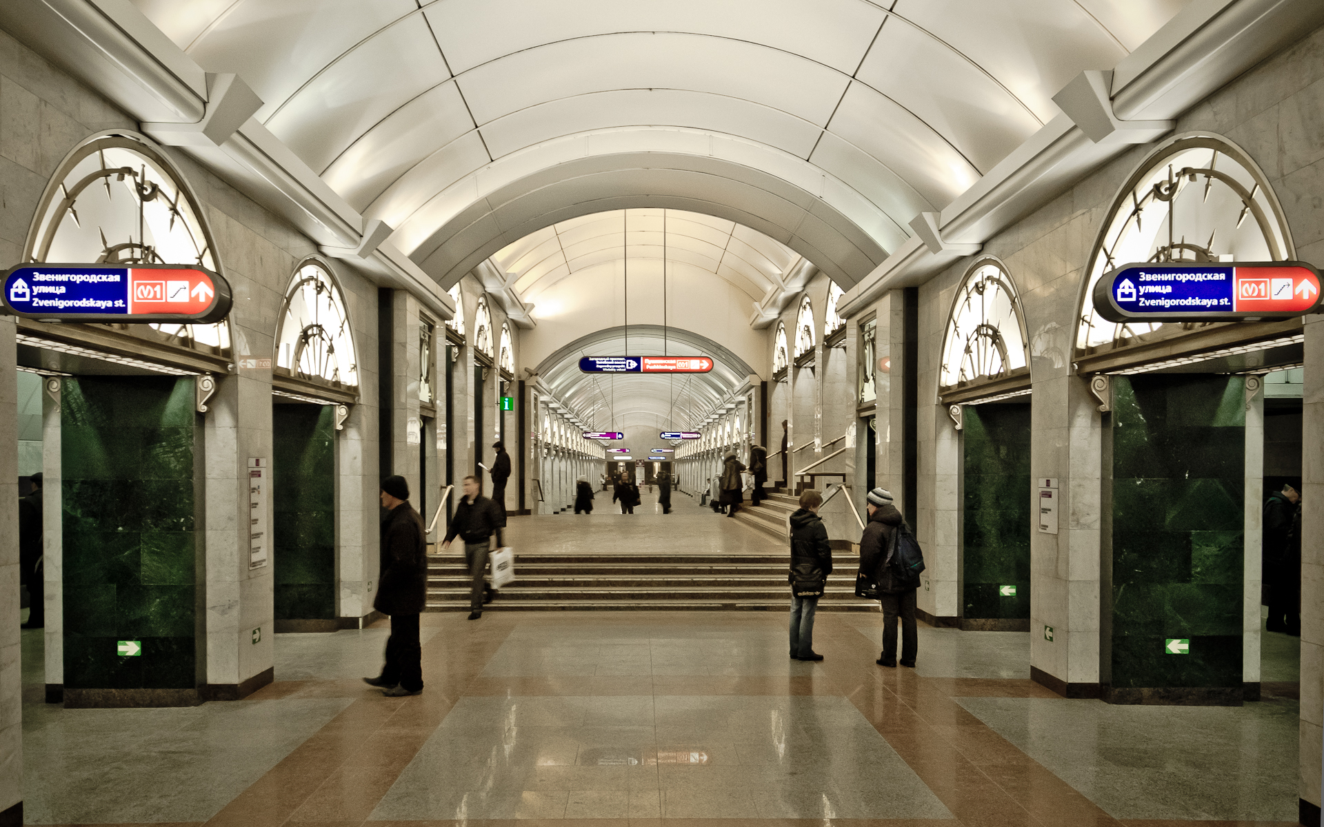 Zvenigorodskaya subway station in Saint Petersburg, 2011